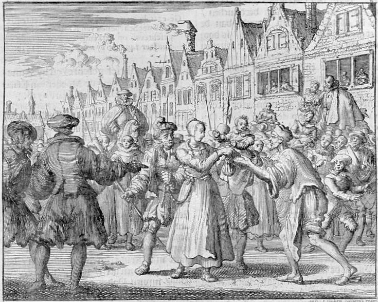 Etching in the Martyrs Mirror, Book 2, page 143: Drowning of Anneke Esaiasdochter (Anna Jansz), Rotterdam, 1539